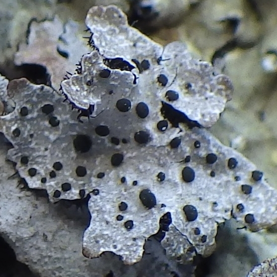 Abrothallus parmeliarum (Sommerf.) Arnold Image location: Serra de São Mamede, Portugal Lichenicolous fungus on Parmelia saxatilis. My first words are of thanks to the prestigious lichenologist Javier Etayo that once again gave me his precious help in the identification of this species, based on the photographs of specimens and microscopy. It was the first time I found lichenicolous fungus on Parmelia (in this case, P. Saxatilis). That same day and in the near site of this observation also found lichenicolous on P. sulcata, but in that case there was no apothecia. Based on microscopic features For more information about this, see the observation page at Mushroom Observer.